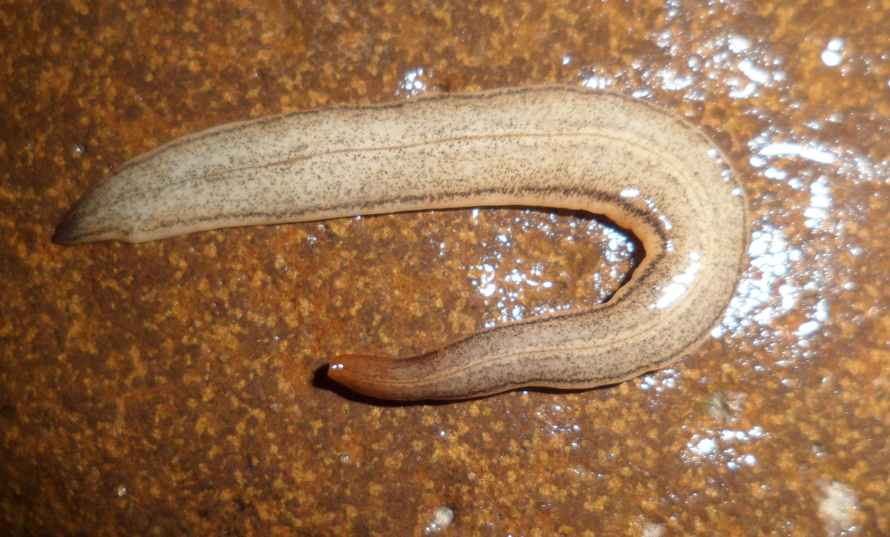 Supramontana irritata from the National Forest of São Francisco de Paula